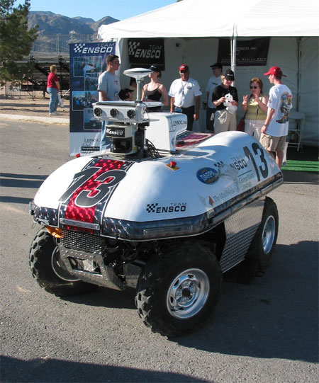 From the DARPA Grand Challenge, Team Ensco's vehicle - Picture by Rupert Scammell and released under a Creative Commons License (Attribution-ShareAlike 1.0)